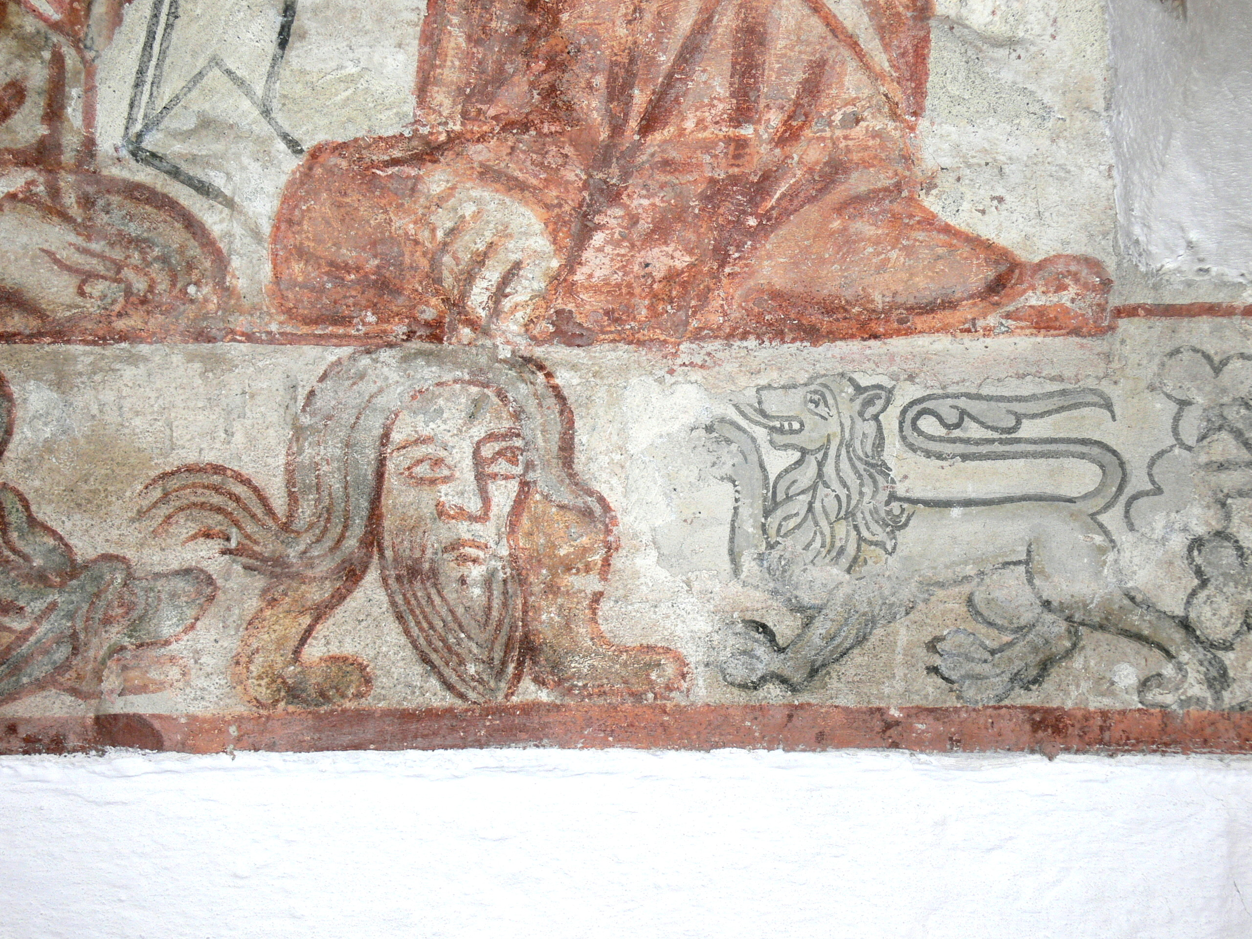 Nørre Alslev church. Frescos in the apse ( 13th century ): Lion and walking head.